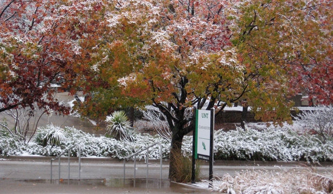 The Snow day